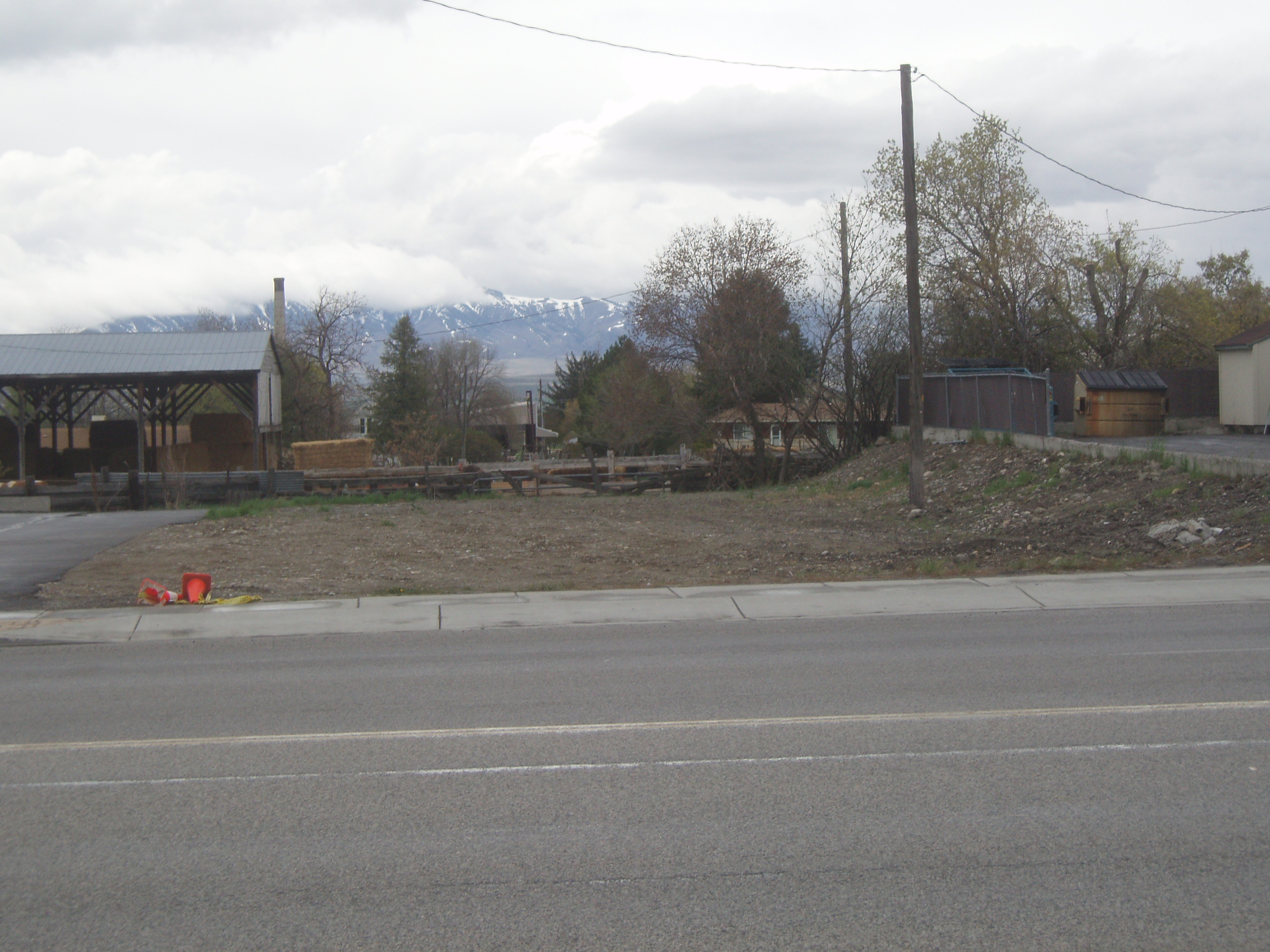 The former location of the historic Plant Auto Company Building, in Richmond, Utah, United States.